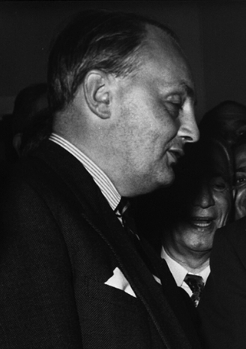 Prime Minister Mohammad Mossadegh of Iran shaking hands with Sr. Gladwyn Jebb at the United Nations Security Council in New York City.